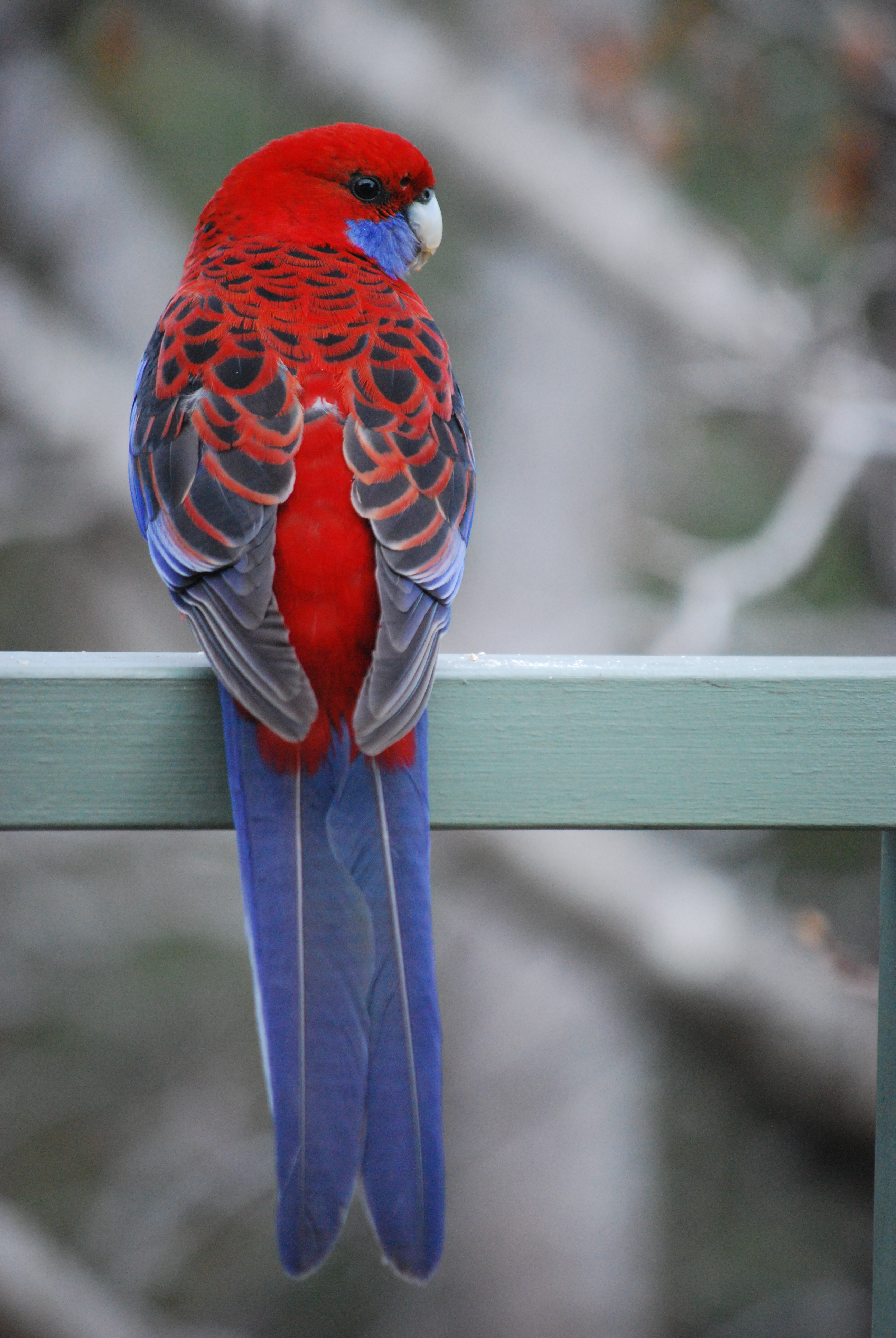 A Crimson Rosella photographed though a window in the Blue Mountains, Australia.